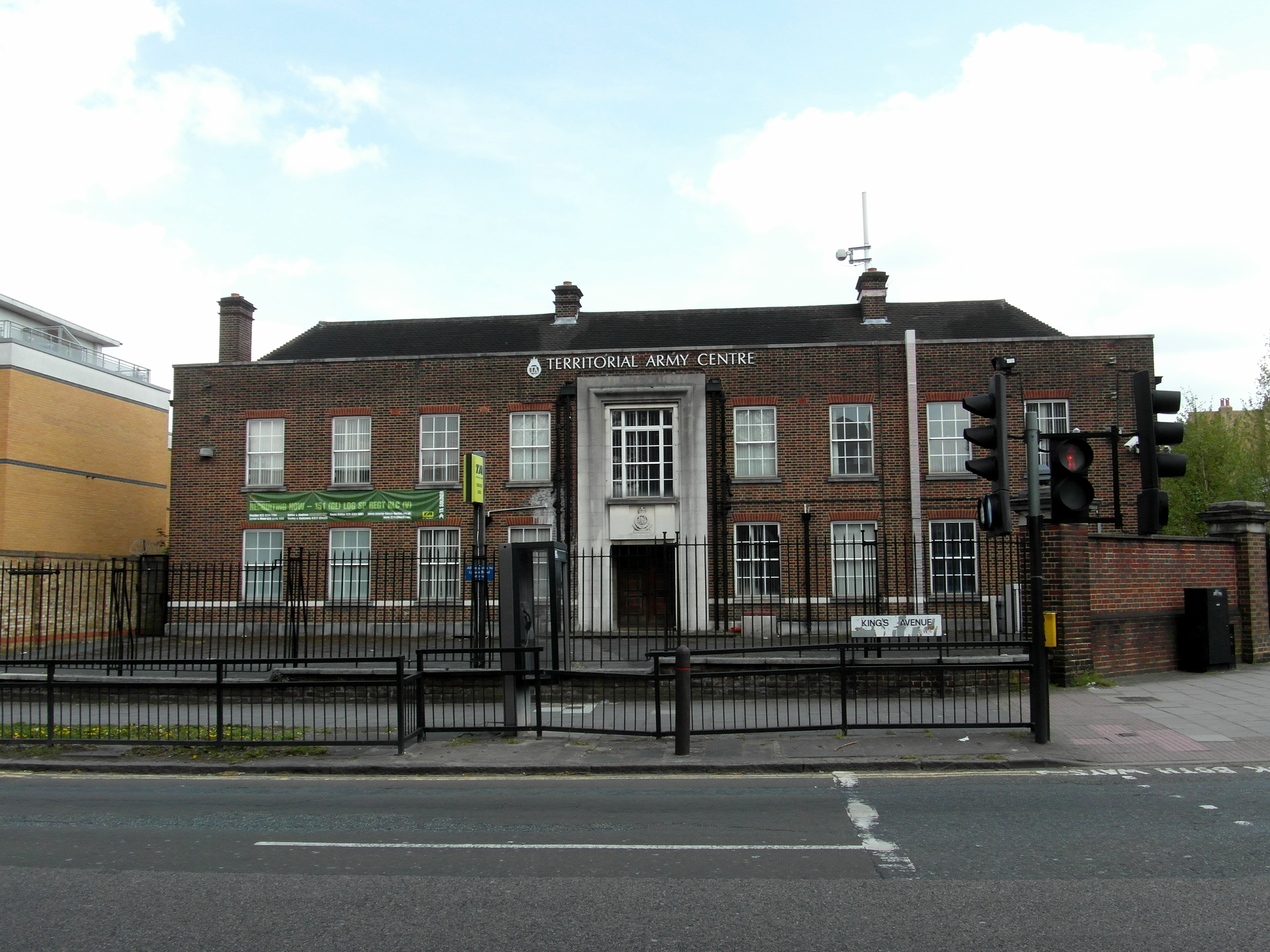 Territorial Army Centre, Kings Avenue, Clapham